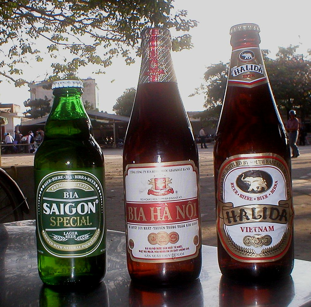 Three brand of popular beers in Vietnam Myself-made picture Siren-Com 07:57, 29 January 2006 (UTC)